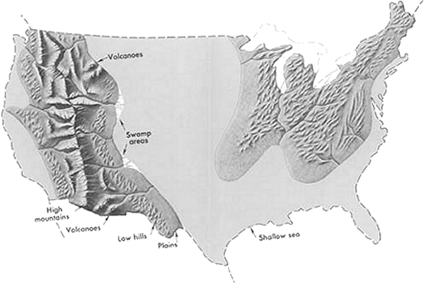 United States during Cretaceous. A replacement image as per request on the image page.